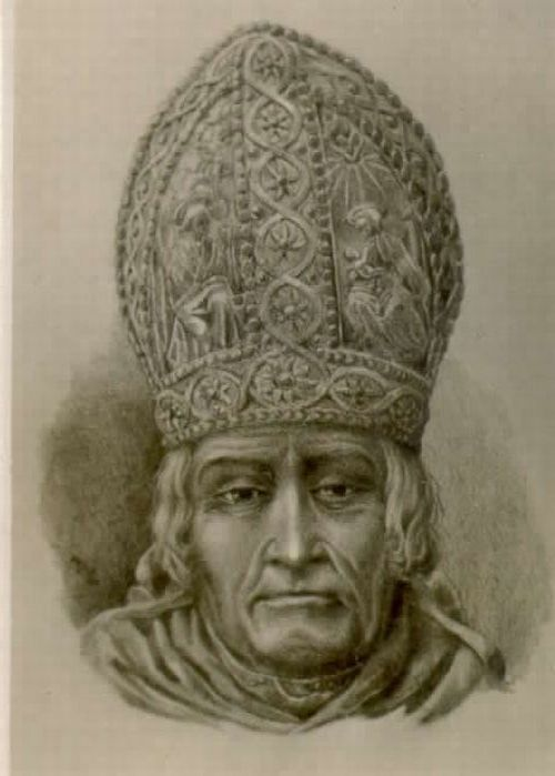 Jurij Slatkonja (Georg von Slatkonia, Jurij Chrysippus) (1456 - 1522), Slovene conductor, composer and bishop.